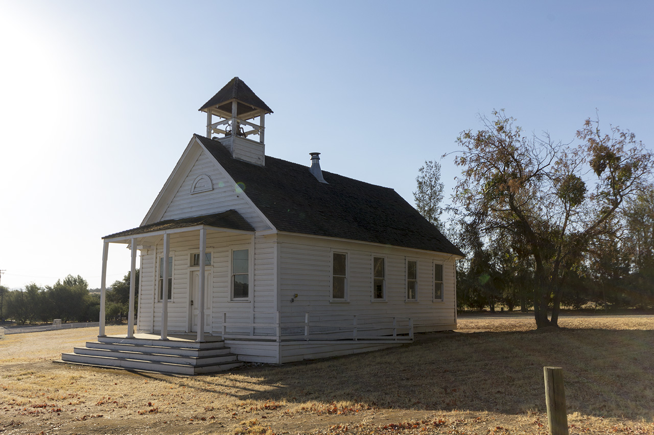 Old La Grange Schoolhouse — in La Grange, Stanislaus County, northern California.